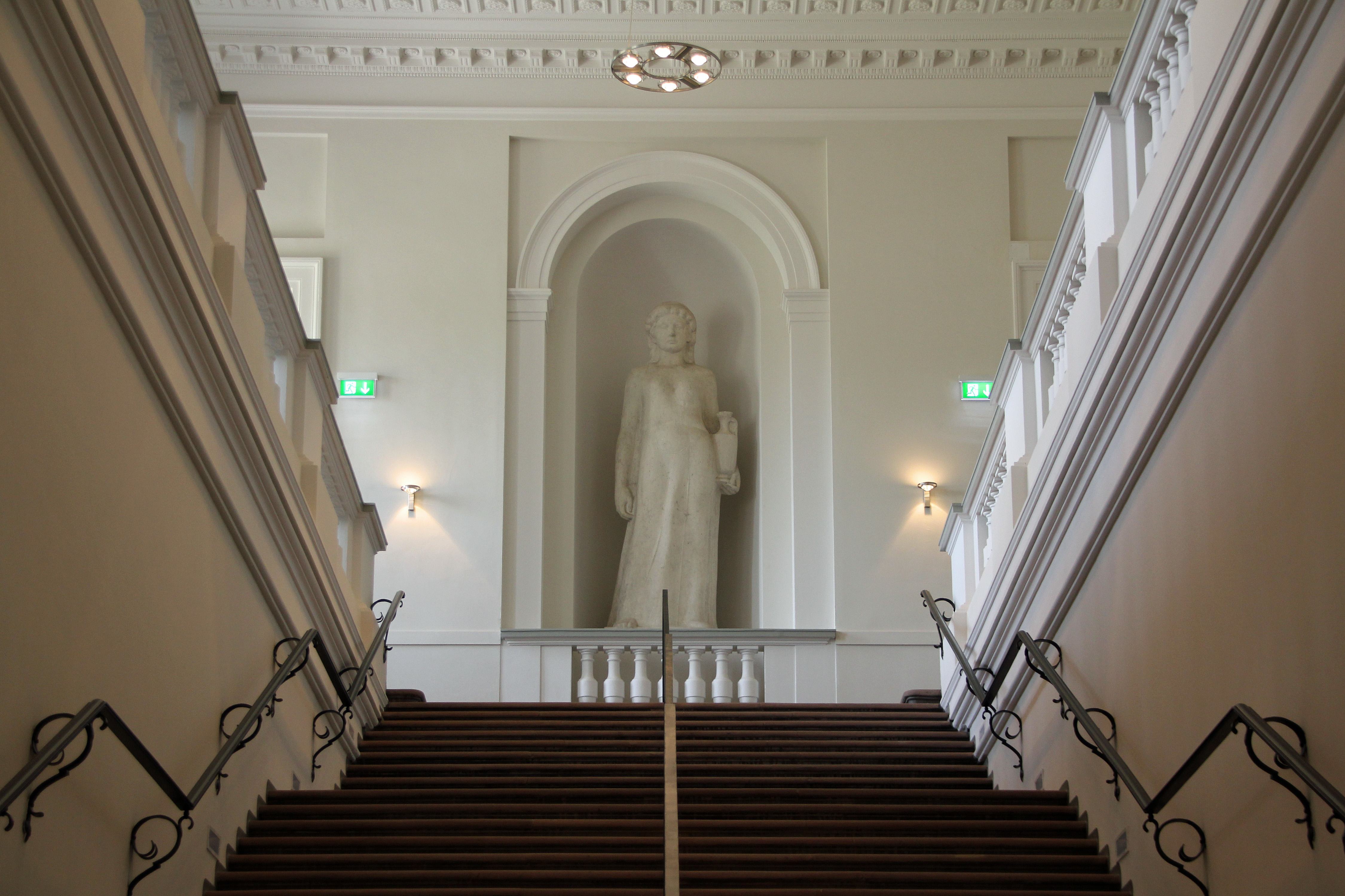 Federal Horticultural Show 2011 in Koblenz - Electoral Palace